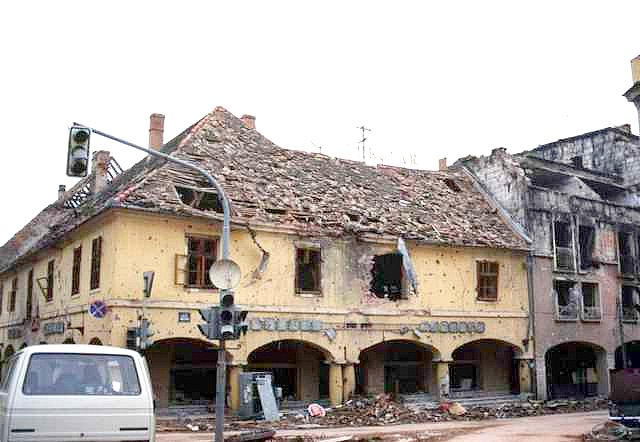 Destroyed buildings in Vukovar, November 1991. One of a set here.